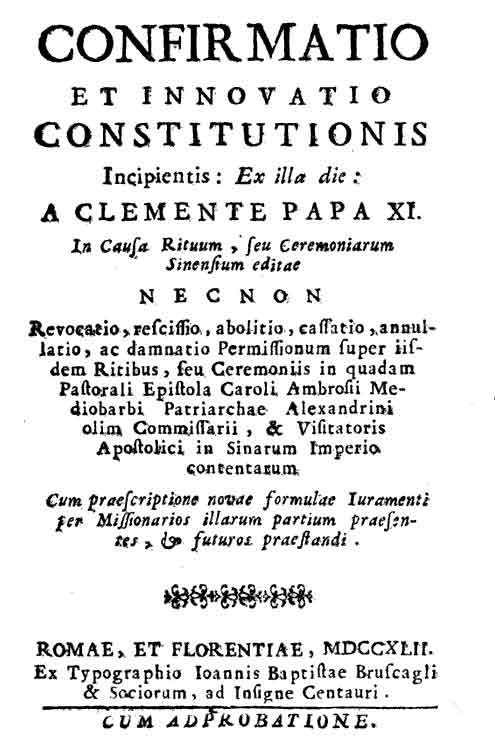 demanded that missionaries in China take an oath forbidding them to discuss the issue again1742